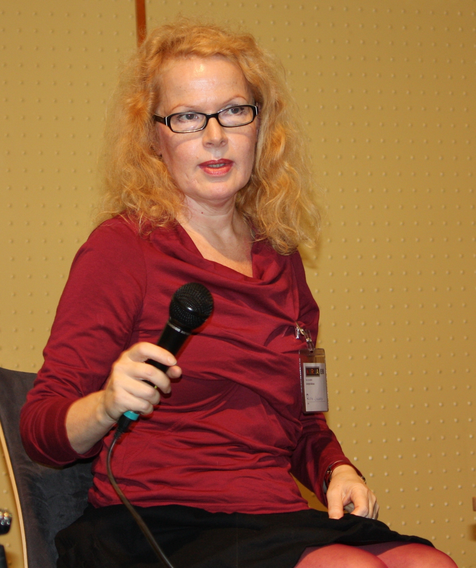 Finnish writer Riitta Jalonen at the Helsinki Book Fair 2010.